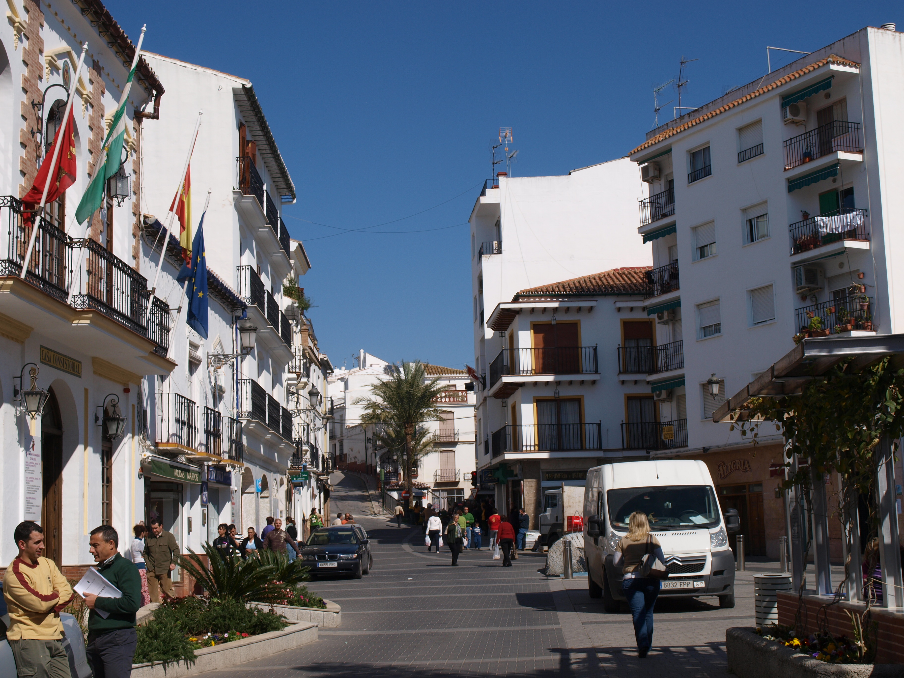 Square in Álora, Spain, Town Hall to the left.